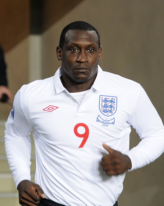 Emile Heskey as a player of England national football team